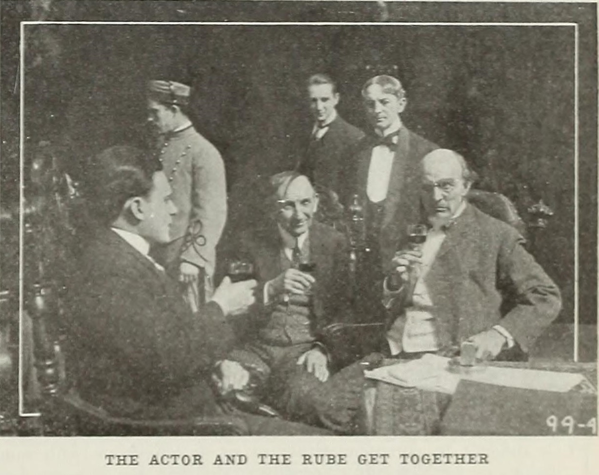 The Actor and the Rube film still from Motion Picture News.